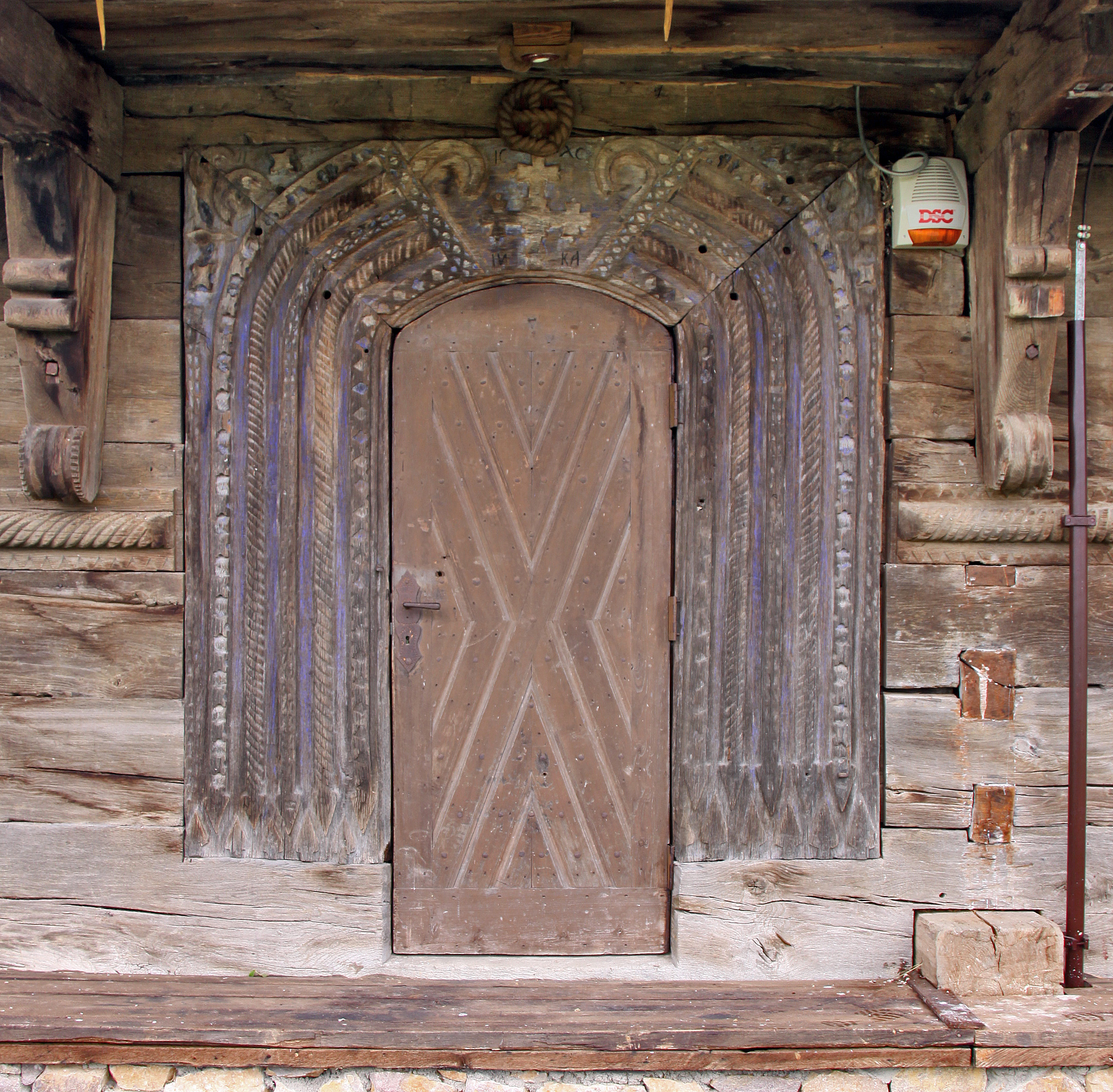 Cucuceni, Bihor: the wooden church initially in Ghighişeni. Portal towards North.